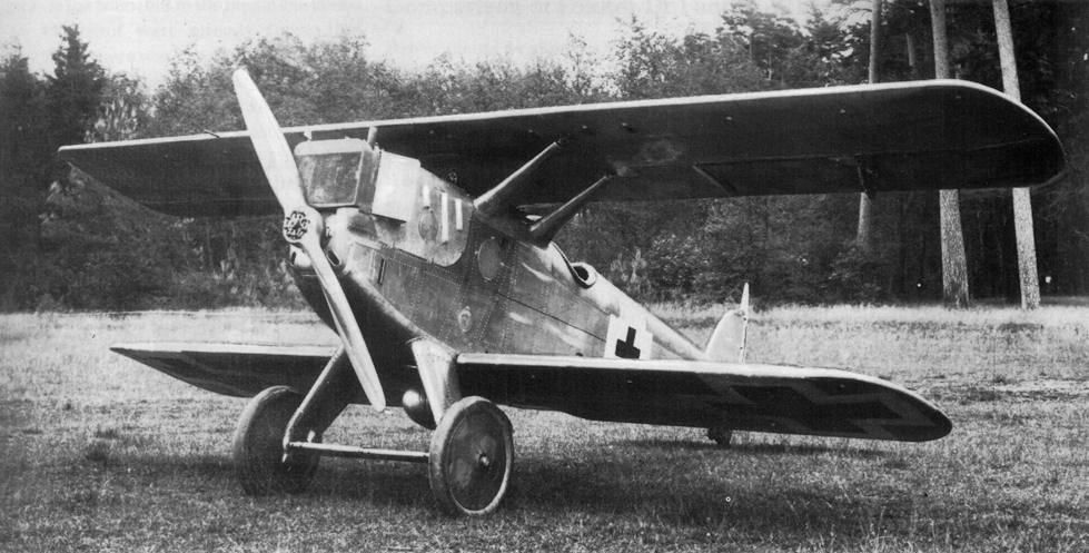 Zepplin-Lindau (Do) D.I German WW1 stressed skin all-metal monocoque cantilever wing single seat biplane fighter.